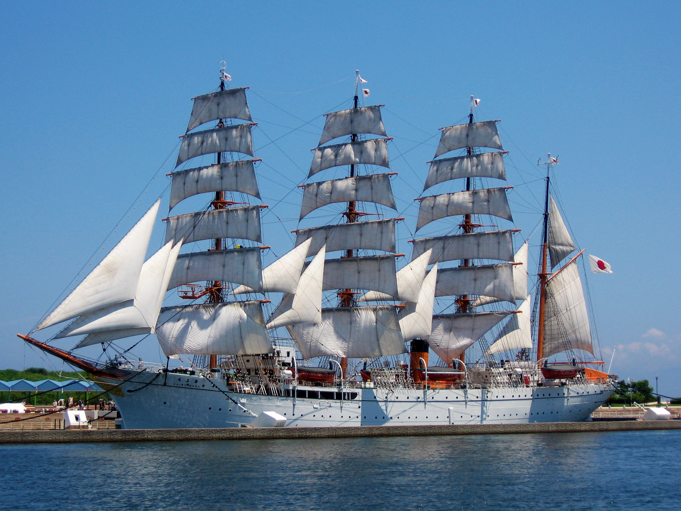 Kaiwo Maru, Kaiwomaru Park